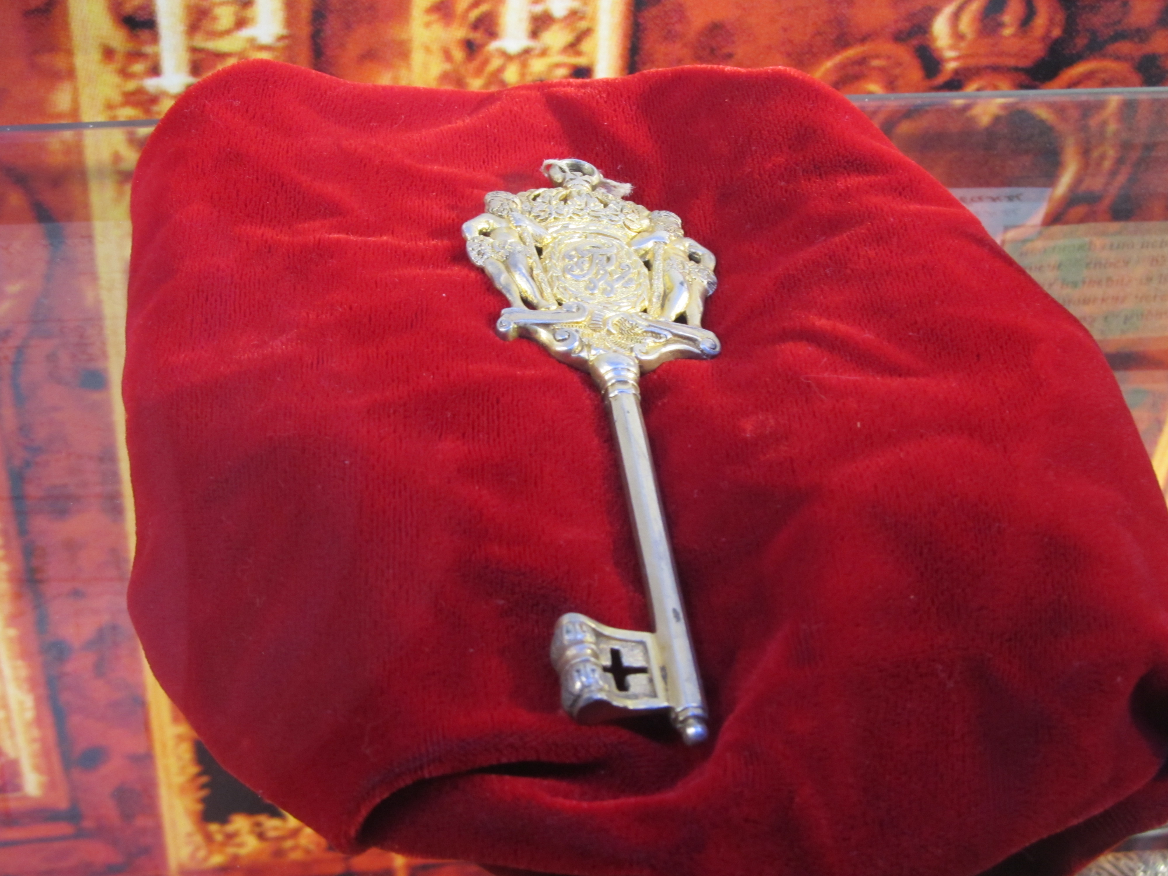 The Key of a Chamberlain at Kingdom of Prussia Kalinigrad Blindage museum